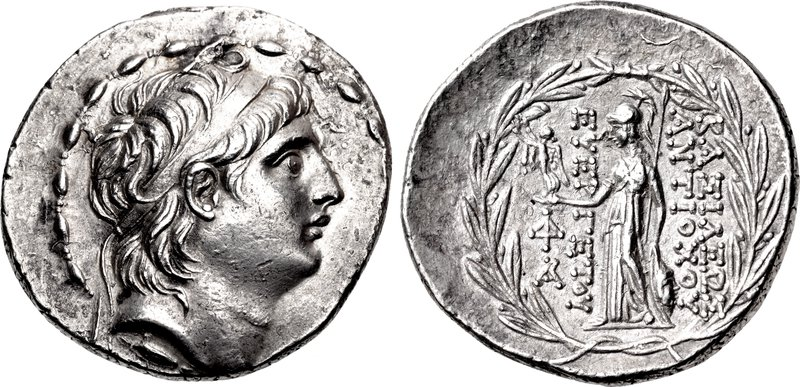 Coin of Antiochos VII Euergetes (Sidetes). 138-129 BC. AR Tetradrachm (32mm, 16.49 g, 2h). Antioch on the Orontes mint. Diademed head right / Athena Nikephoros standing left, resting hand on shield, and propping spear on her arm; to outer left, mint monogram above Π; all within wreath. SC 2061.1o (this coin illustrated); Lorber, Die, Group 1, 23 (A7/P2 –this coin, illustrated); SMA 277; HGC 9, 1067d.